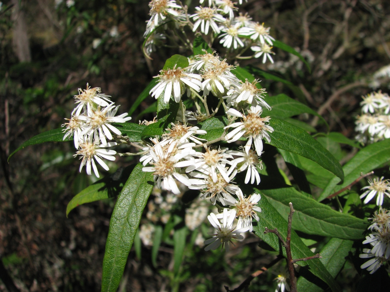 Olearia lirata, Langwarrin Flora and Fauna Reserve, Victoria, Australia